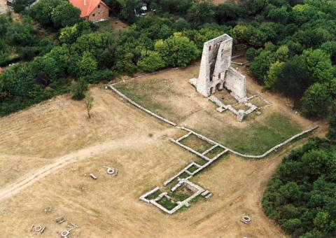 Dörgicse, Hungary, aerial photography